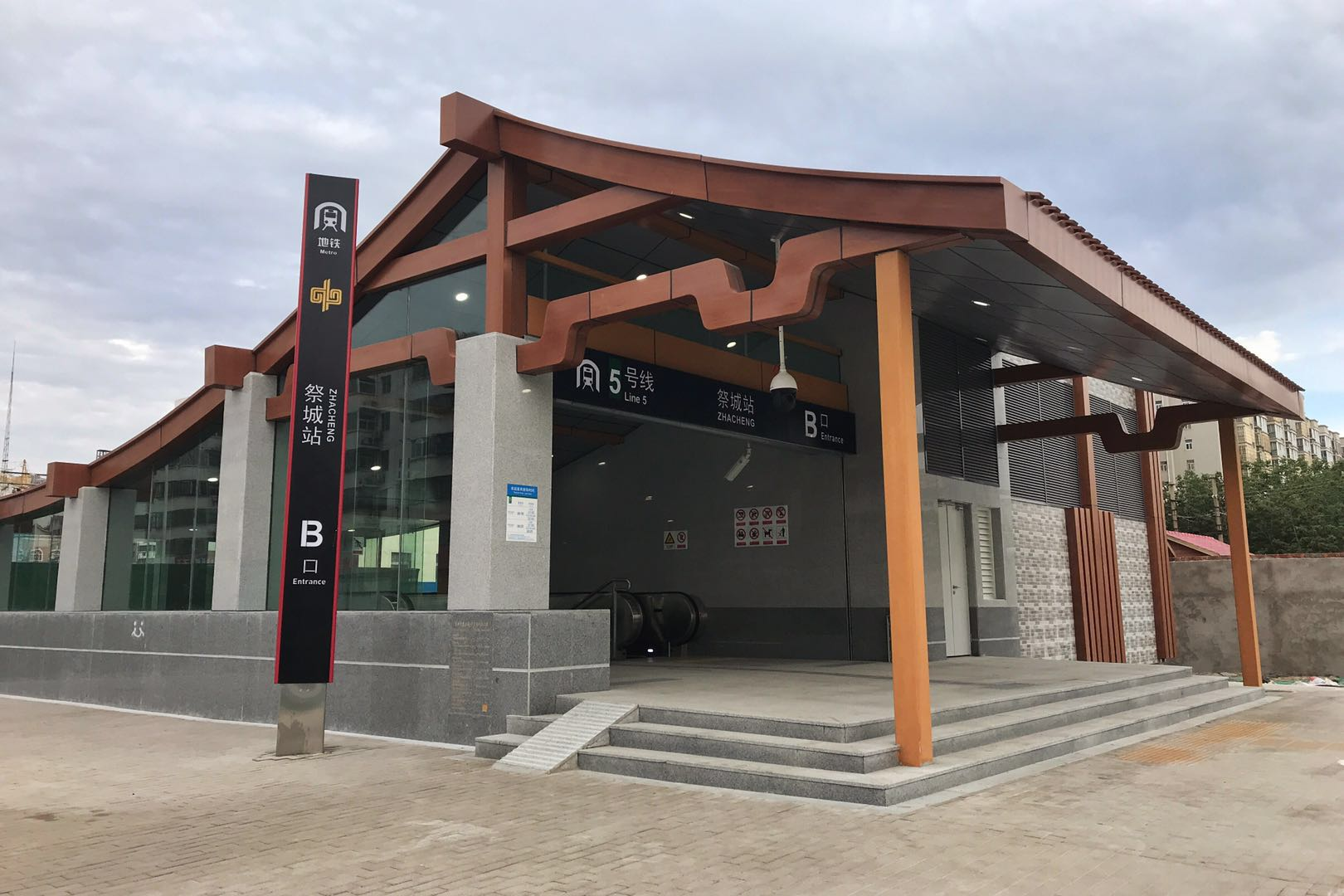 Entrance B of Zhacheng Station